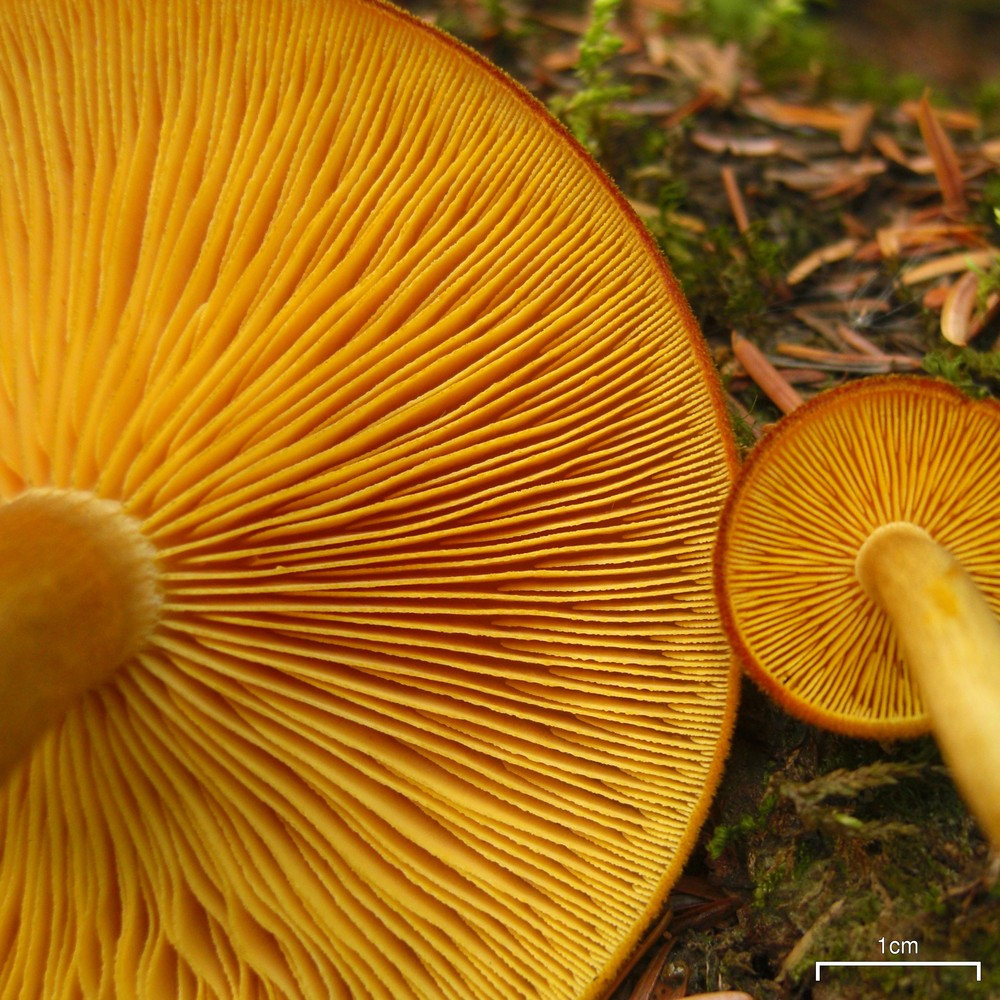 Tricholomopsis decora 20090926.98 Canada, BC, Incomappleux Inland Rainforest